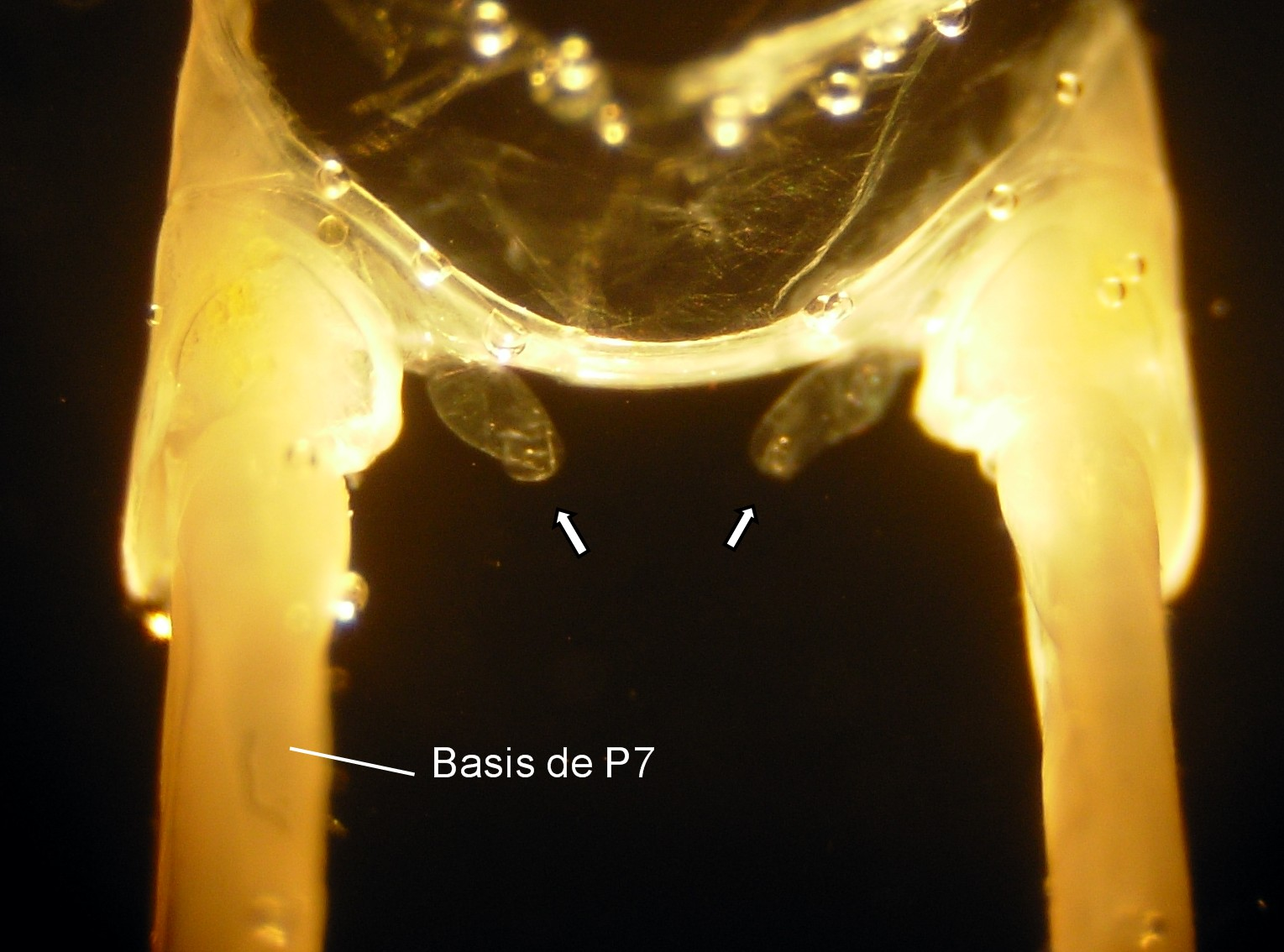 Talitrus saltator, penes.